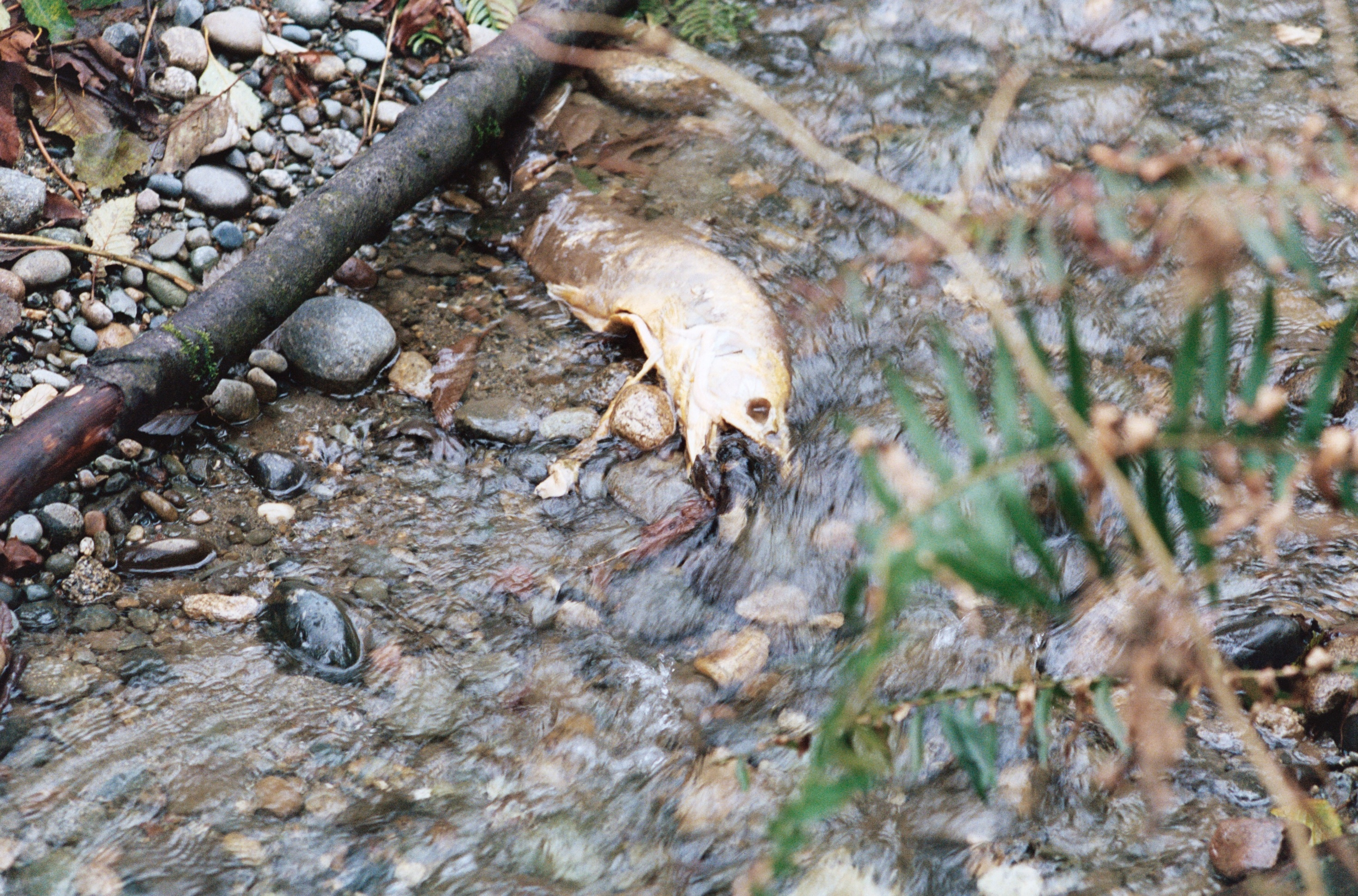 Salmon dead after spawning in Pipers Creek, Seattle, Washington.